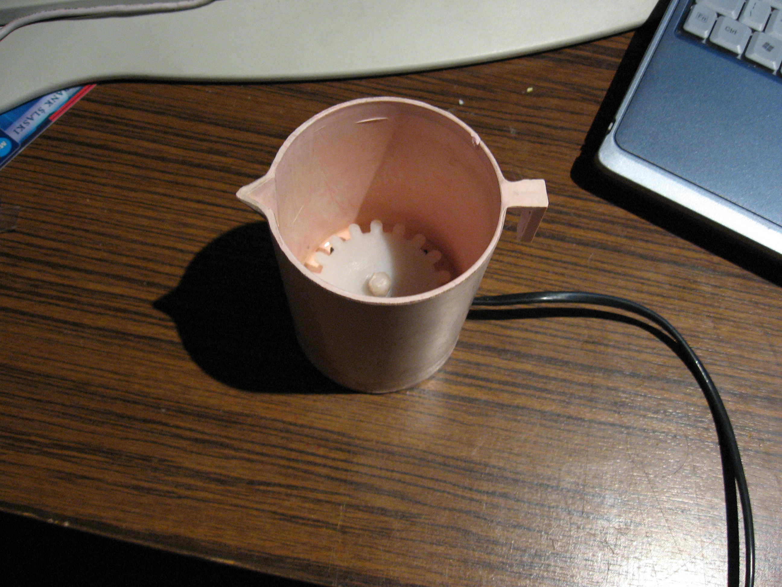 Original Soviet tool for boiling water using water conductivity. Photo of my own kofiwarka.